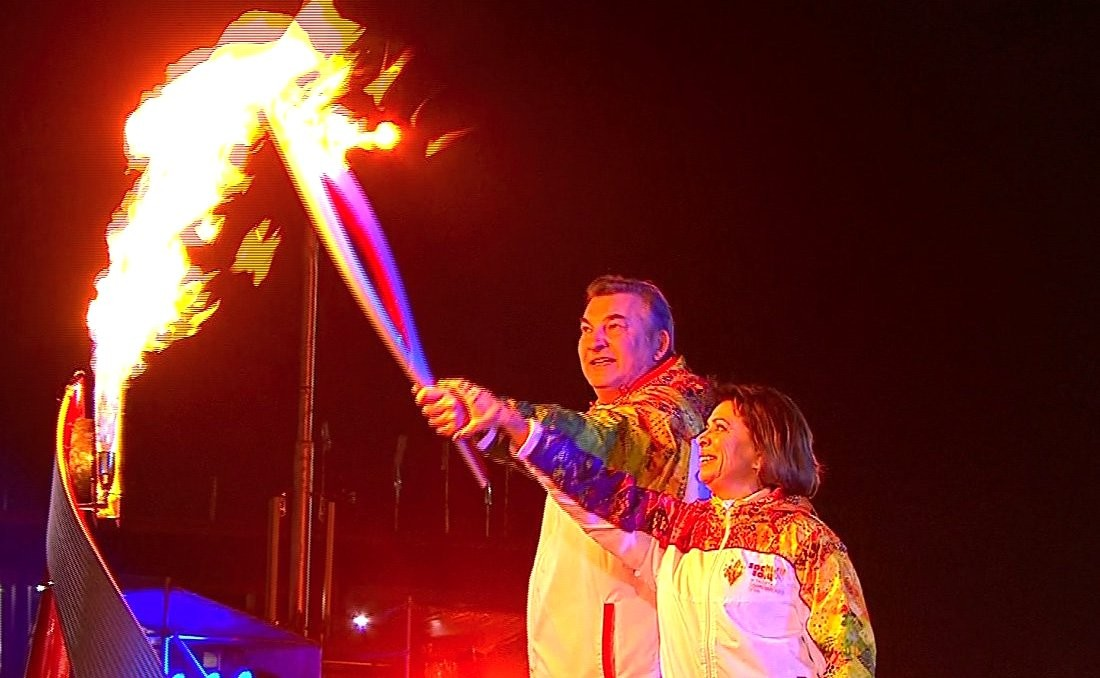 At the Opening Ceremony for the XXII Olympic Winter Games. Irina Rodnina and Vladislav Tretyak at the final stage of the Olympyc torch race.